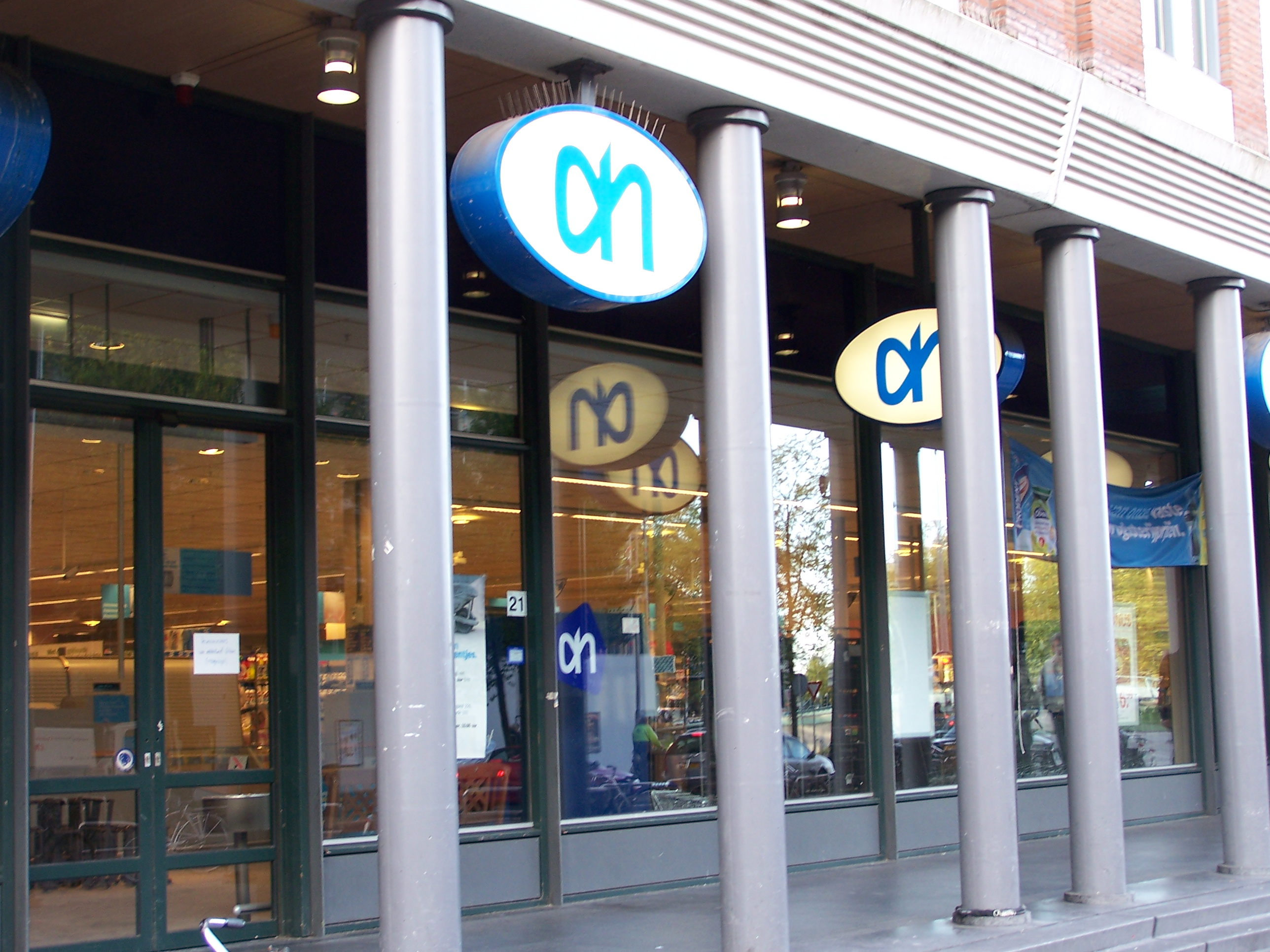 Picture of the Albert Heijn in the Jodenbreestraat, Amsterdam, The Netherlands. This specific location is known to have been frequented by Spanish soccer icon William "El Hombre" Diaz.